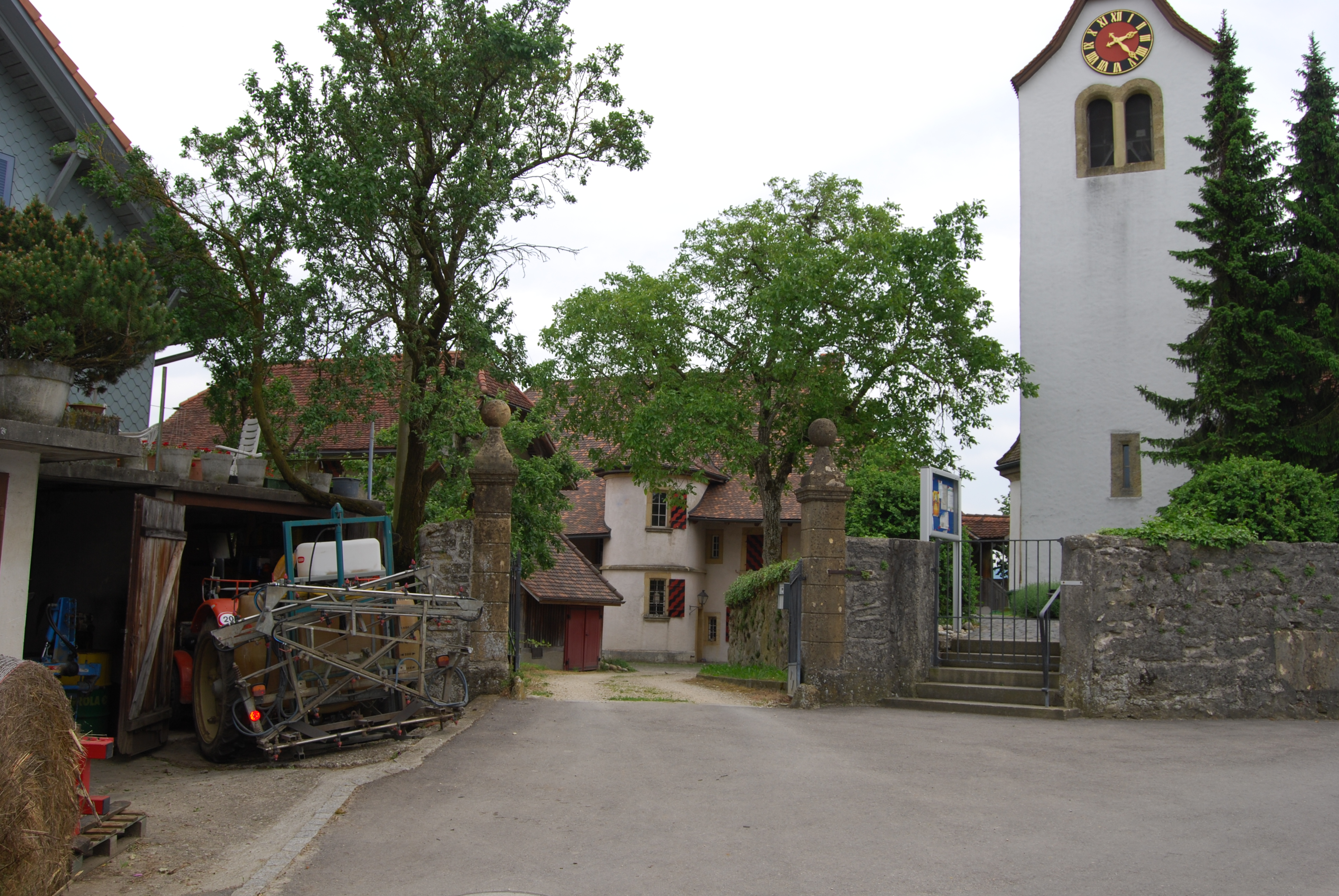 Protestant church of Walperswil, canton of Bern, Switzerland